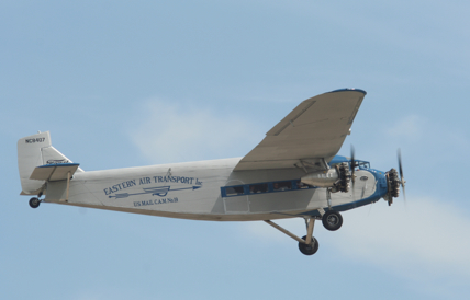 EAA Ford Trimotor (2004)